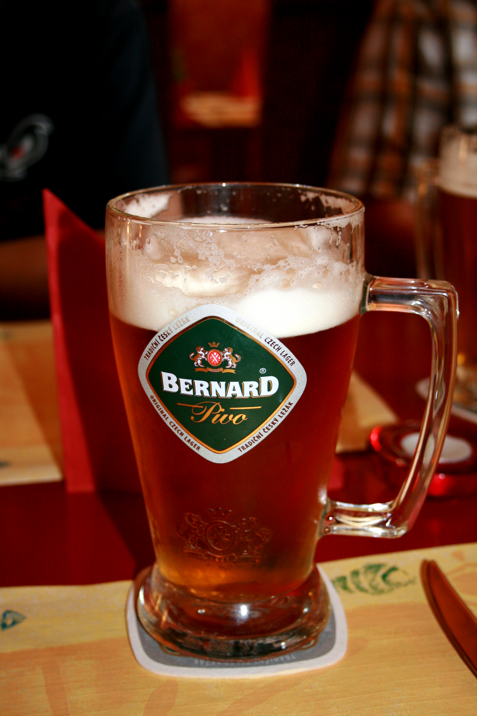 Czech beer Bernard